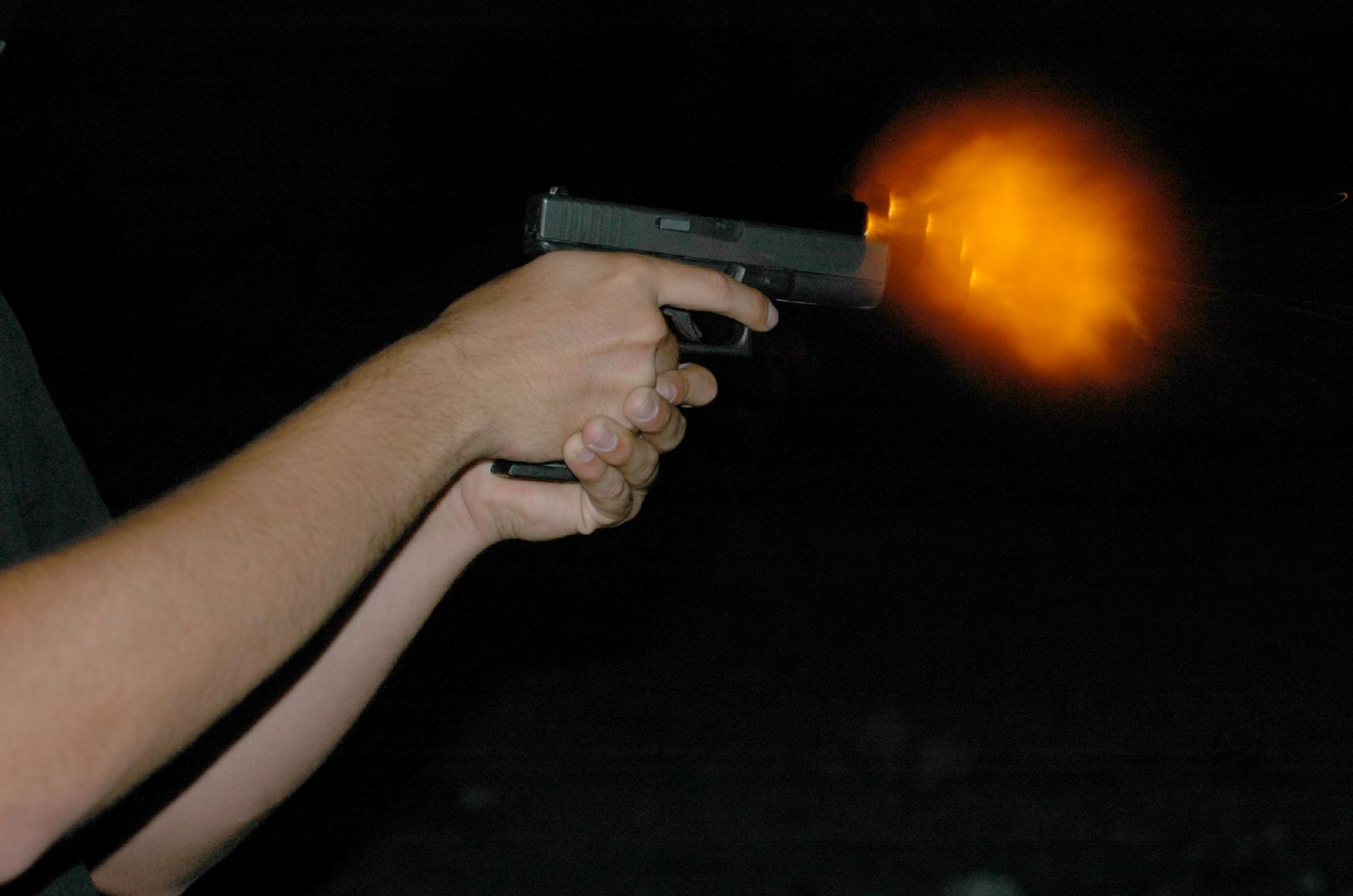 Glock 17 Night firing to catch muzzle flash.Glock 17 (9mm) Muzzle Flash